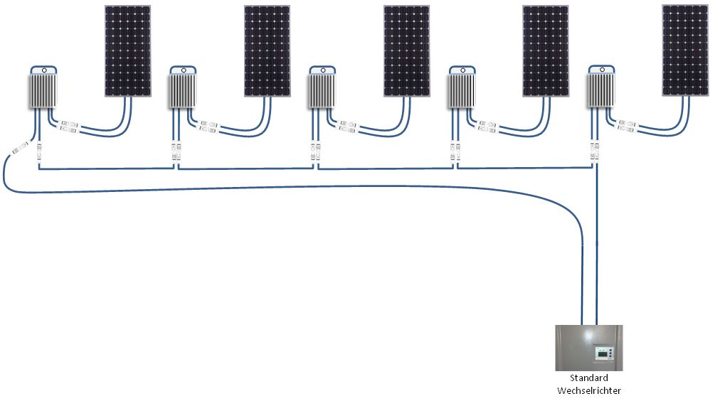 SolarEdge power optimizers Wiring Example with a standard inverter.